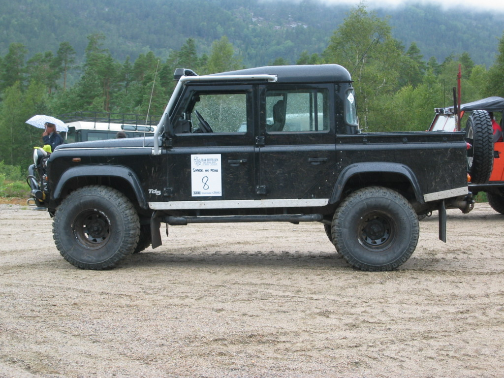 Land Rover Defender 110 crew cab during the Norwegian Land-Rover Club's 30th anniversary in Evje, Norway.